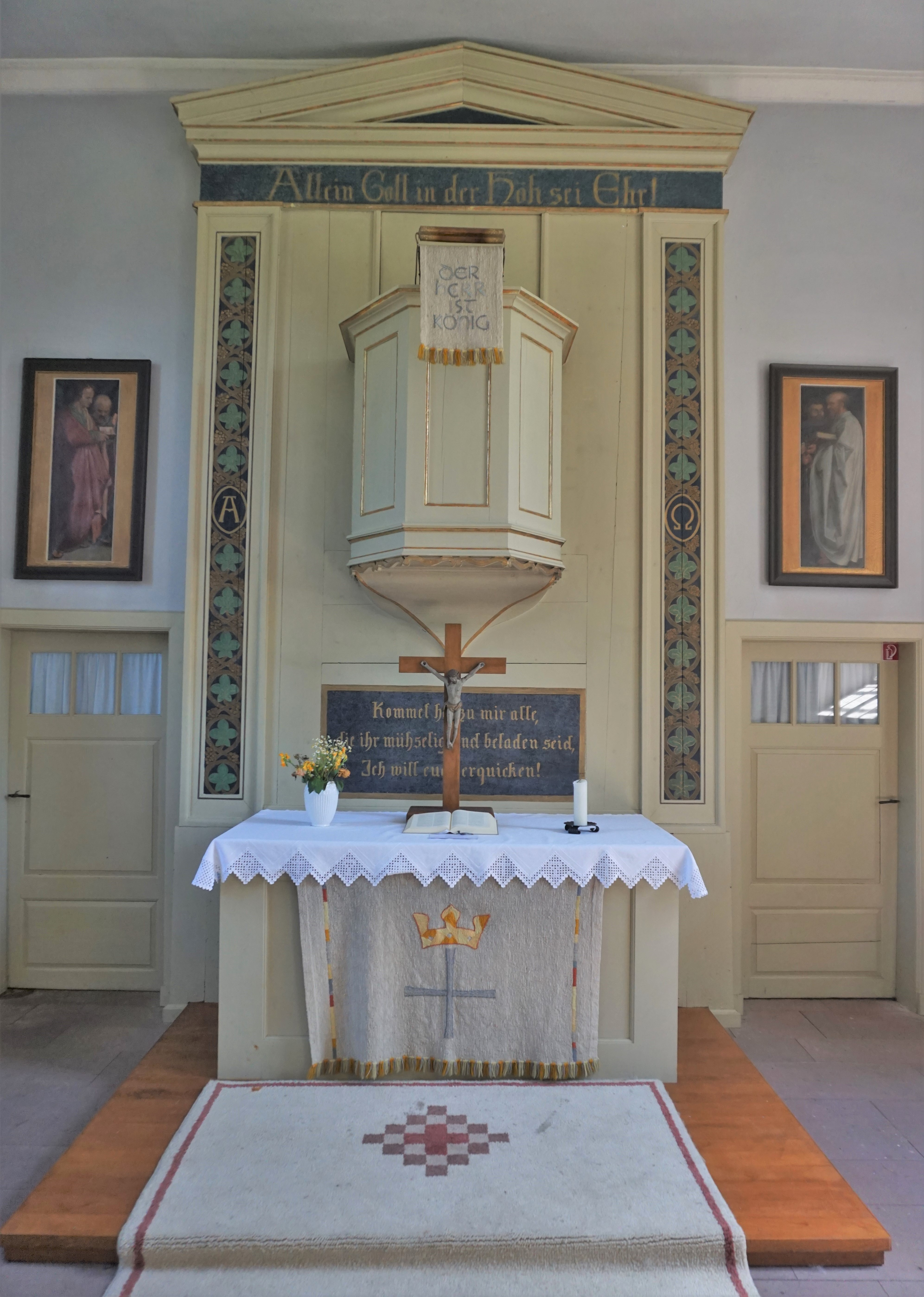 Altar and pulpit of the Saint Vitus Church in Reinstorf, district of Lüneburg.